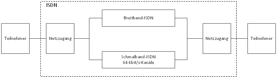 The planned supplement of the Narrowband-ISDN with Broadband-ISDN.